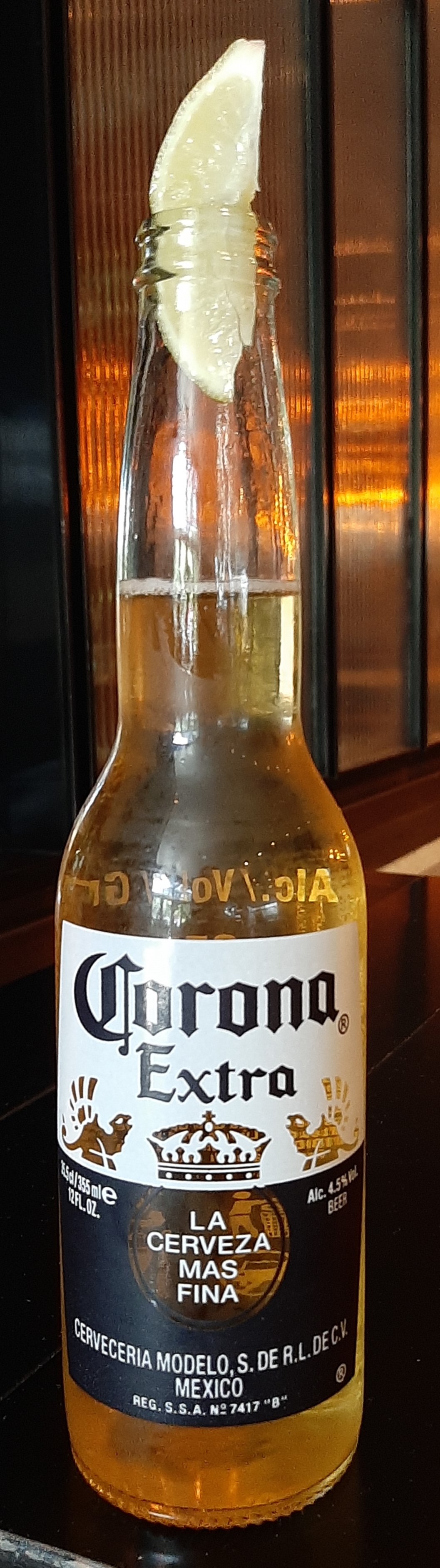 Corona Extra 355 mL (12.FL.OZ.)